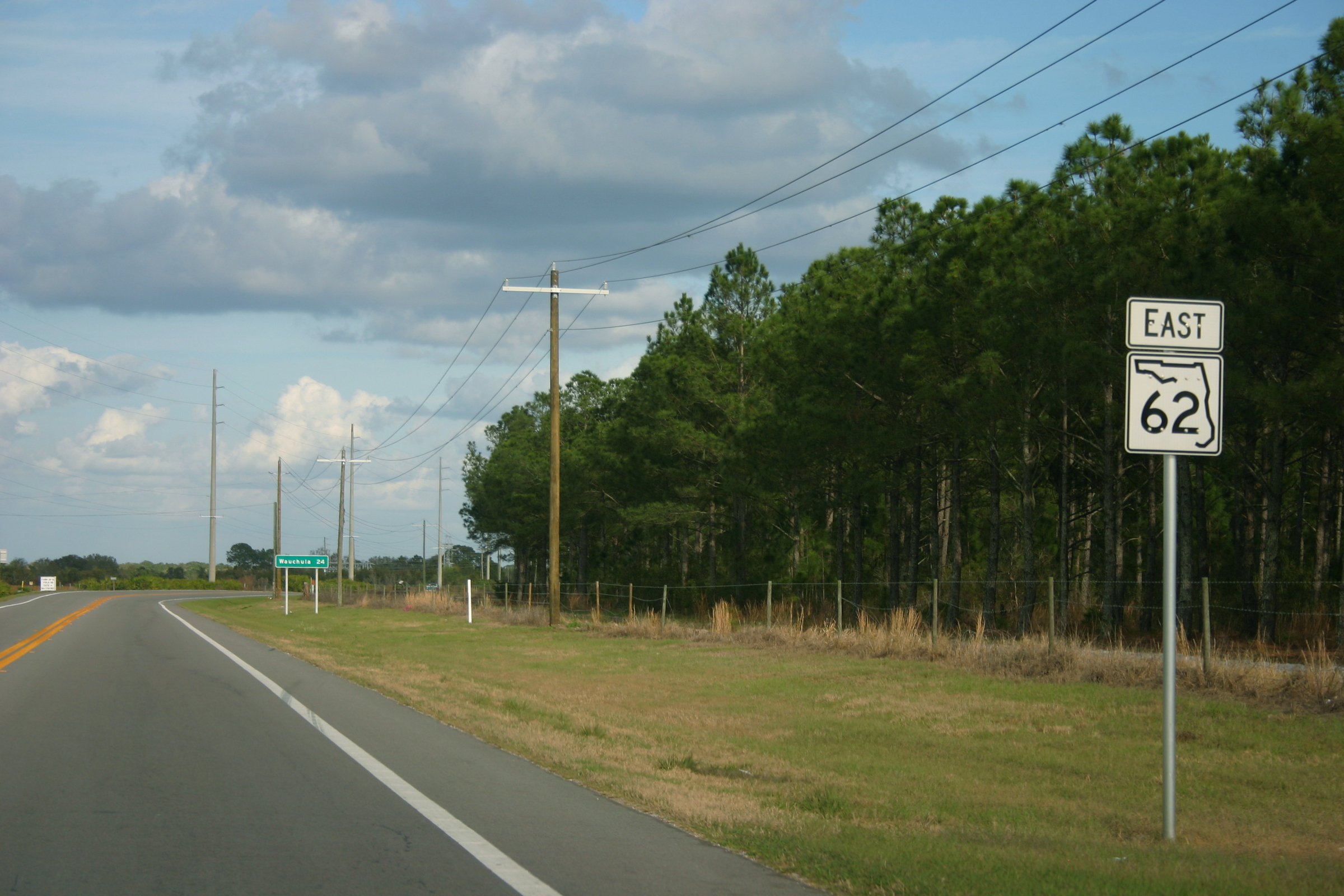 A sign denoting Florida State Road 62, located in Duette.